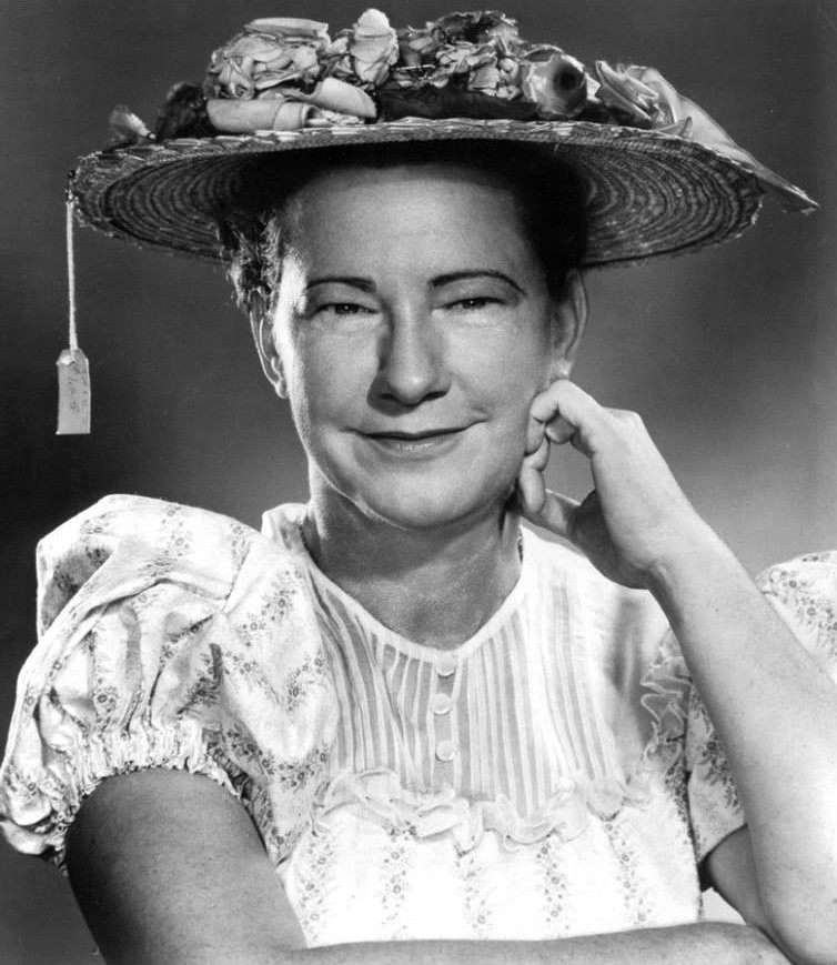 Publicity photo of comedienne Minnie Pearl for appearances made at Chicago's Civic Opera House.